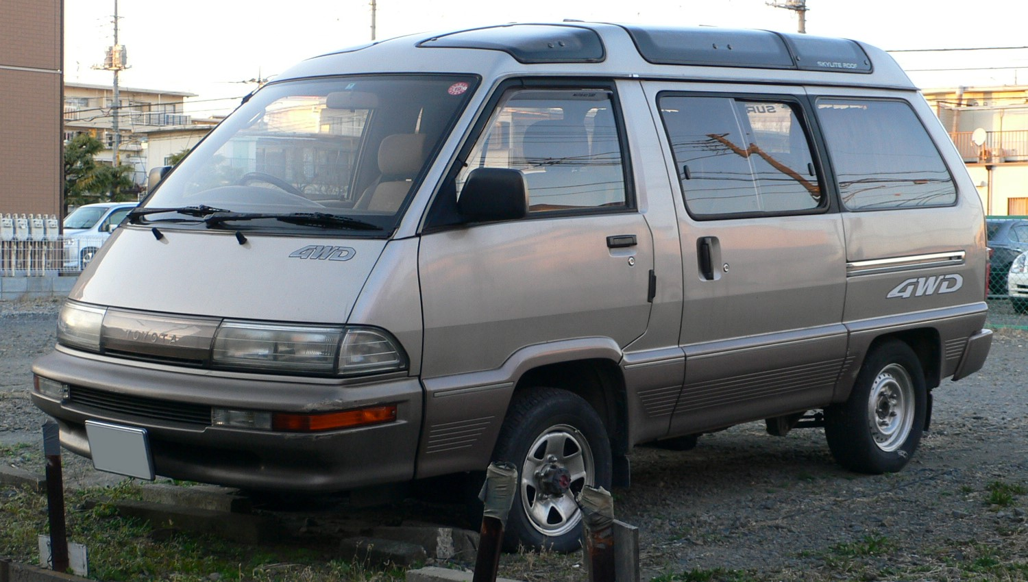 Toyota_MasterAceSurf(1988)